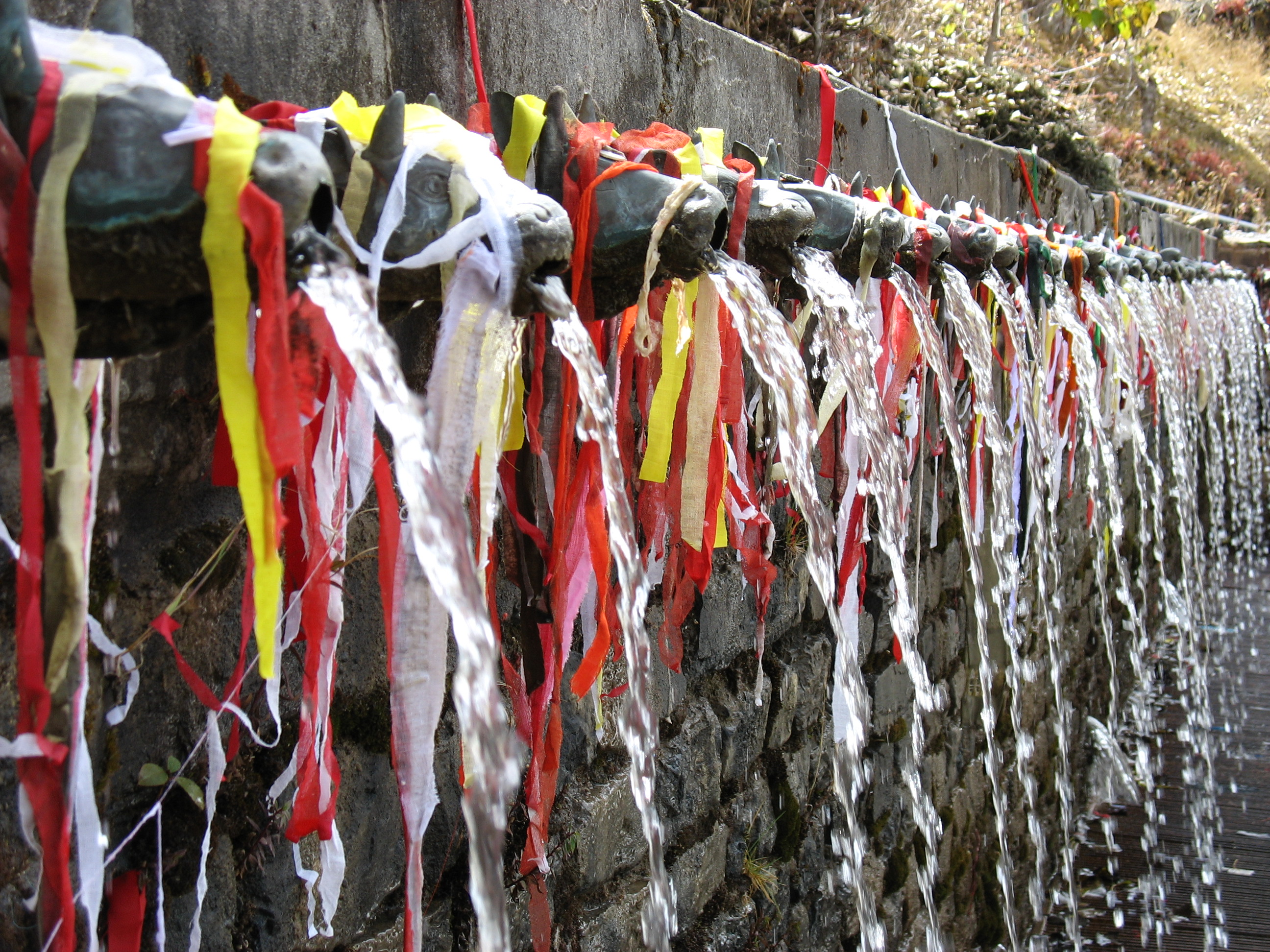 Holy springs in Muktinath, Nepal